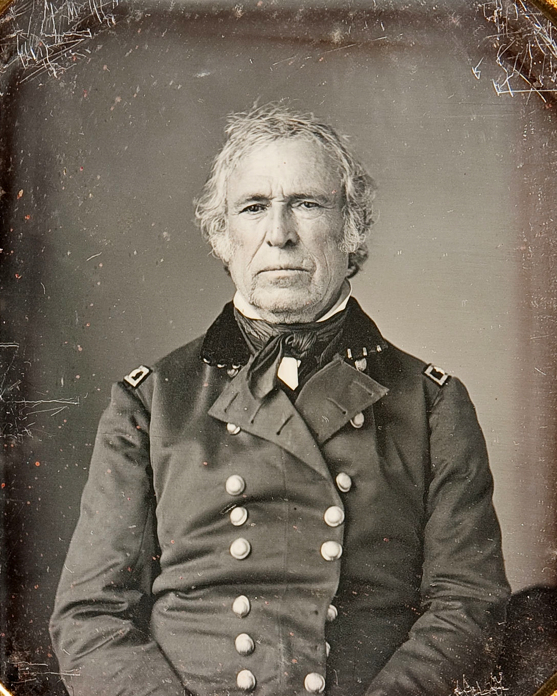 Half-Plate Daguerreotype of Zachary Taylor, cropped 8x10 to remove framing.